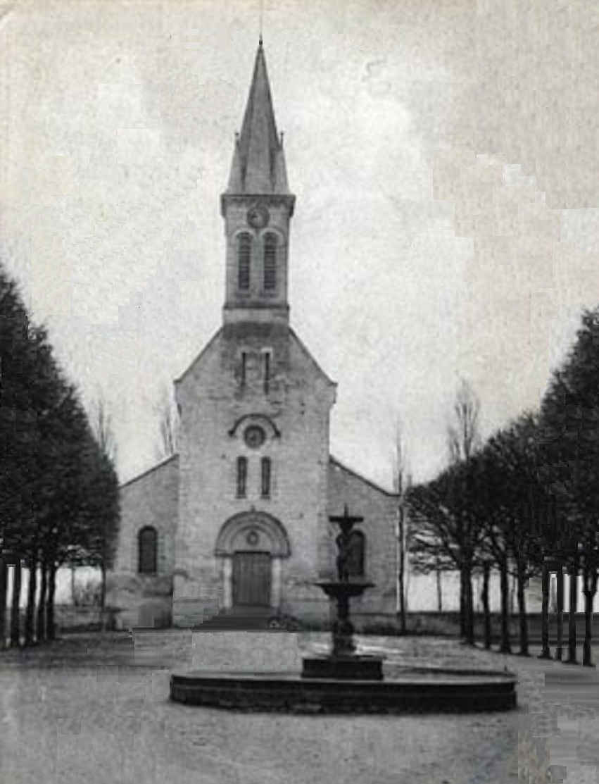 Torcy's church in 1902